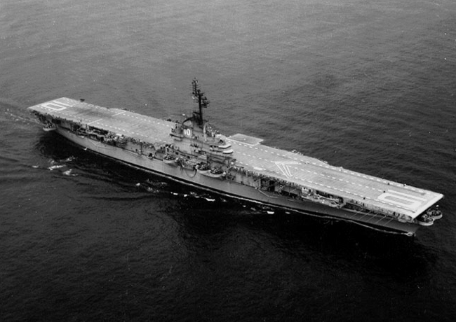 The U.S. Navy aircraft carrier USS Yorktown (CVA-10) underway in July 1953, after completion of her SCB-27A modernization.